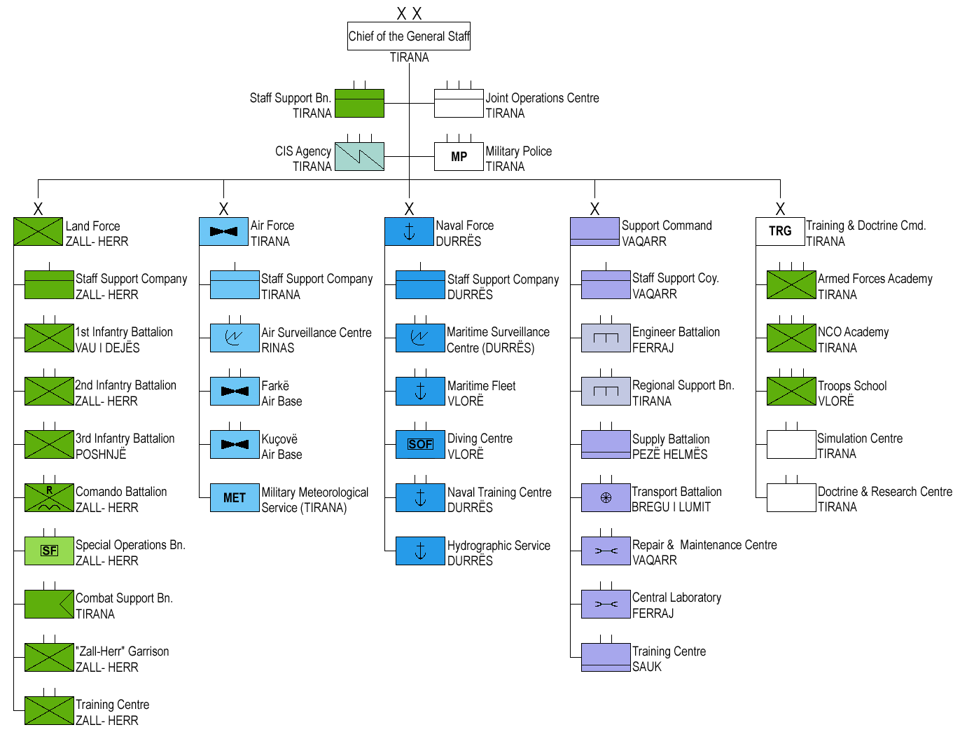 Albanian Military Joint Forces 2007